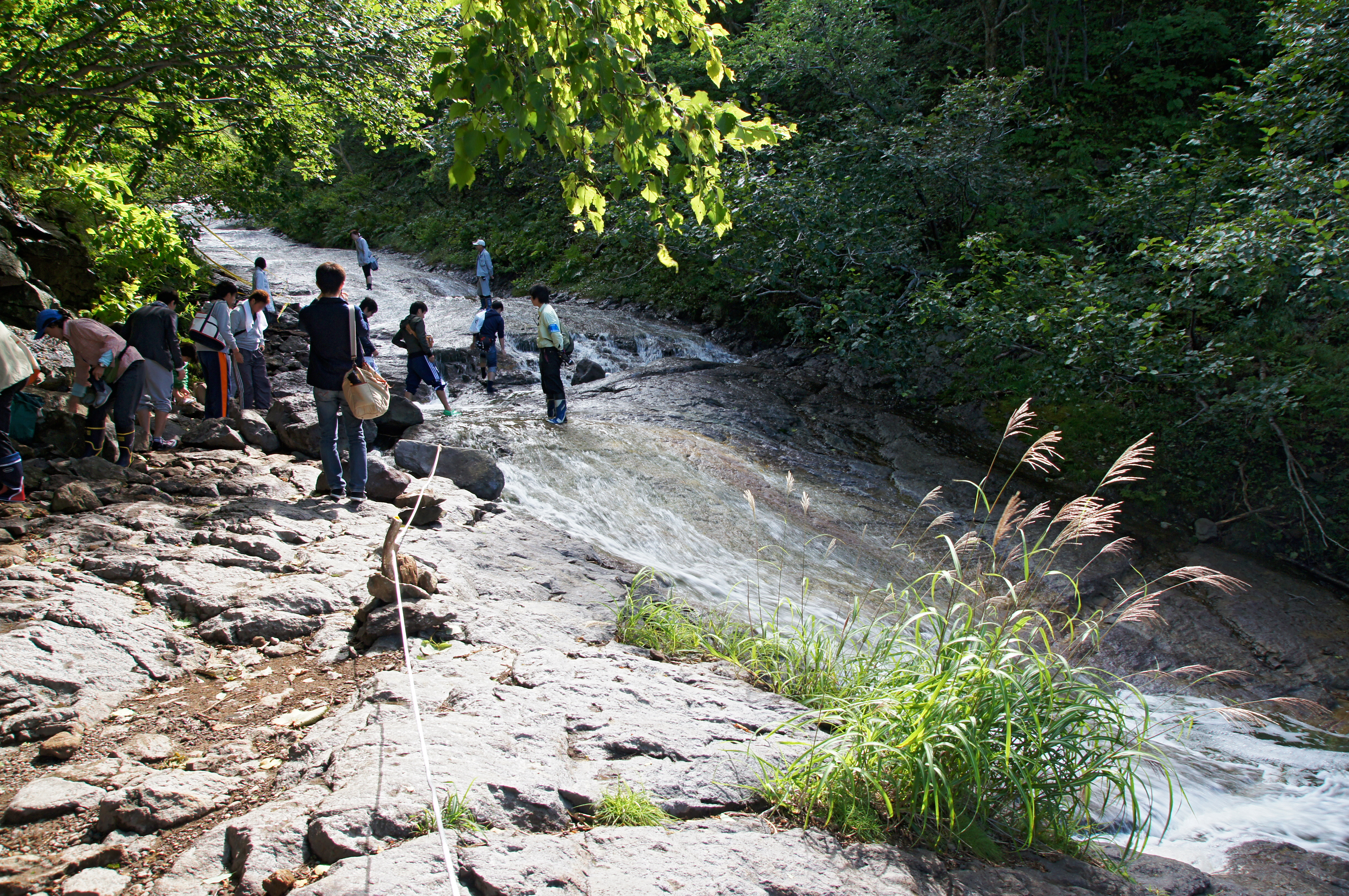 Kamuiwakka_Falls in Shari, Hokkaido prefecture, northern Japan.